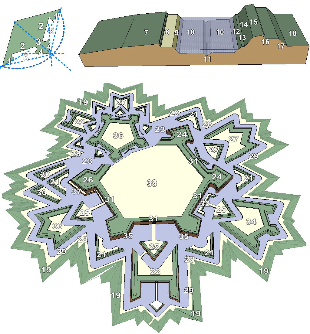 Fortifications types